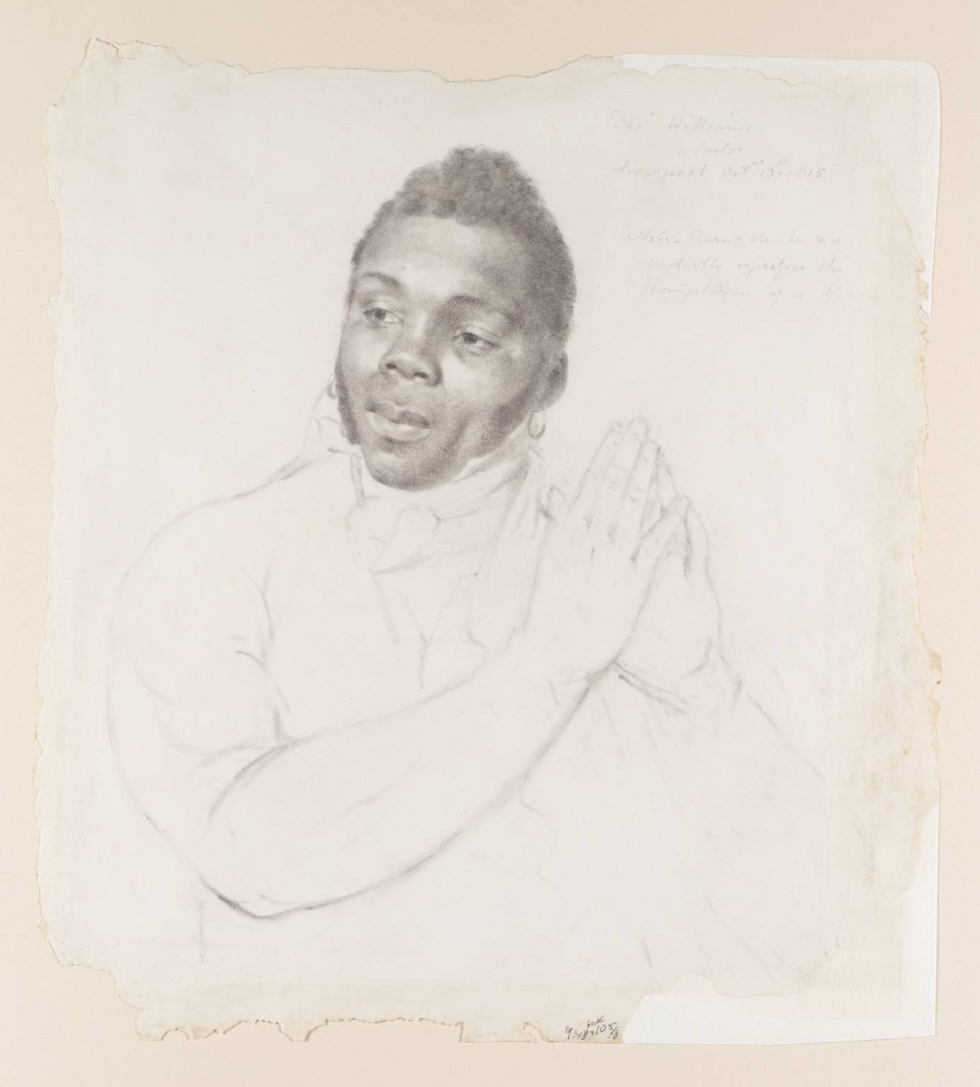 "Thomas Williams, a Black Sailor," by the Welsh artist and portrait painter John Downman, dated 1815. Chalk and graphite on paper, 315 mm x 285 mm. Courtesy of the collections of the Tate Britain.